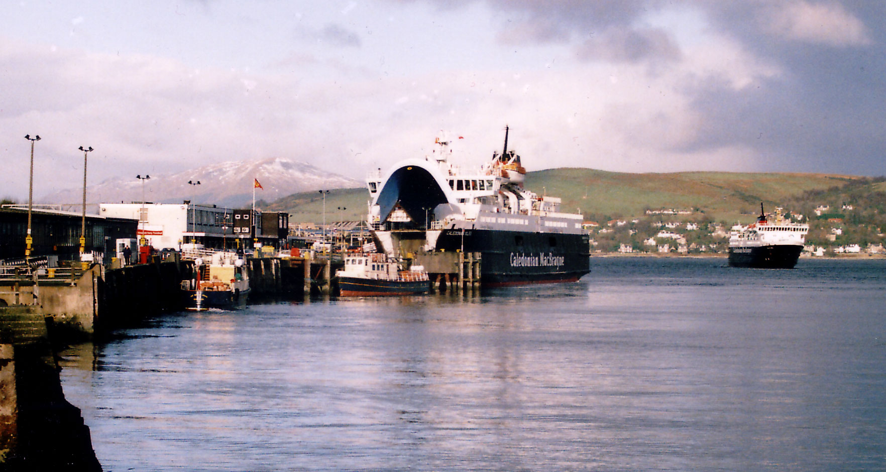 Gourock pierhead in Scotland showing the Caledonian MacBrayne headquarters and a visit from MV Caledonian Isles and MV Isle of Mull. The small boat to the left is MV Second Snark, and to its right is MV Rover, both run by Clyde Marine. Caledonian Isles IMO number: 9051284 MMSI Number: 232001580 Callsign: MRAB8 Length: 95 m Beam: 16 m Isle Of Mull IMO Number: 8608339 MMSI Number: 232343000 Callsign: MJCE3 Length: 90 m Beam: 16 m